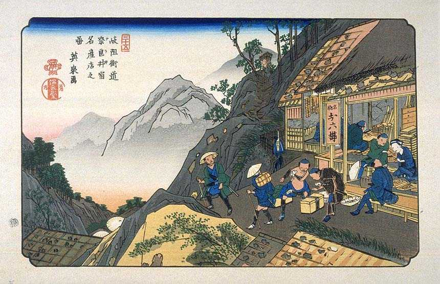 Narai on the Kisokaido, ukiyo-e prints by Keisai Eisen